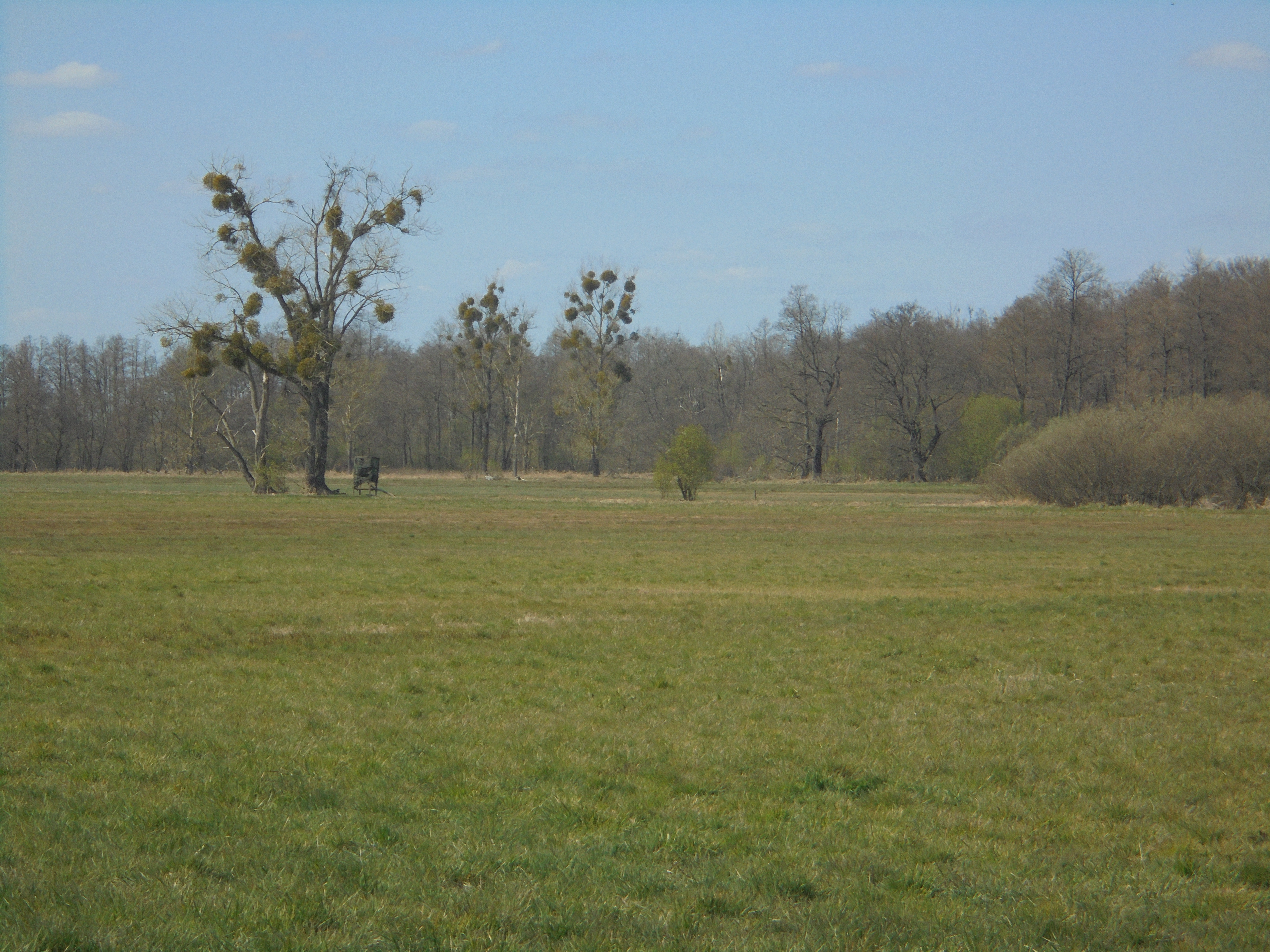 Nature reserve Politz und Hegholz near Rühen and Grafhorst, Lower Saxony, seen from Southern border next to River Aller